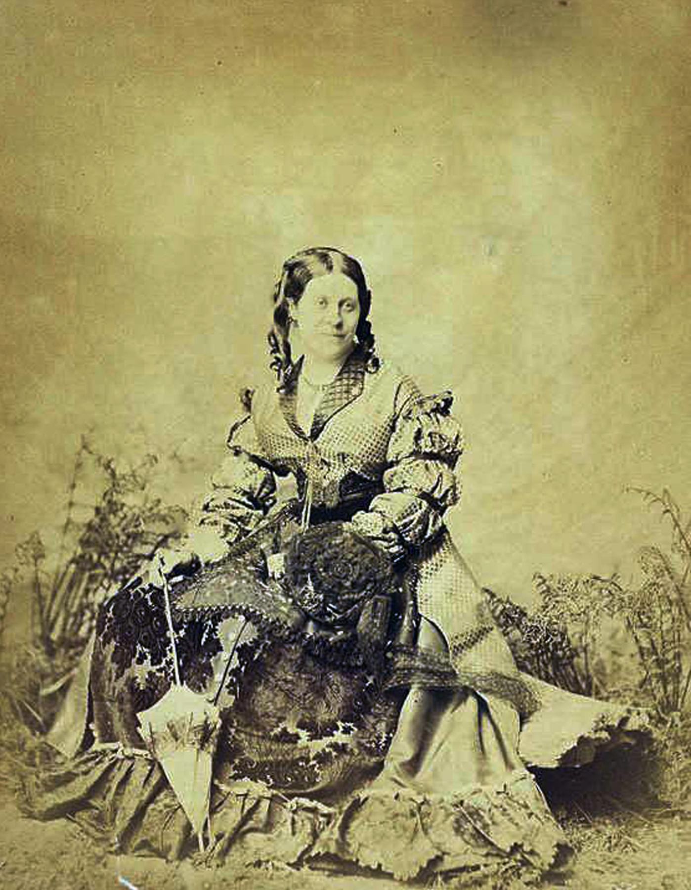 Rose Mary Crawshay (1828–1907) was a British philanthropist. - 1870s pic from Peoples Collection of Wales